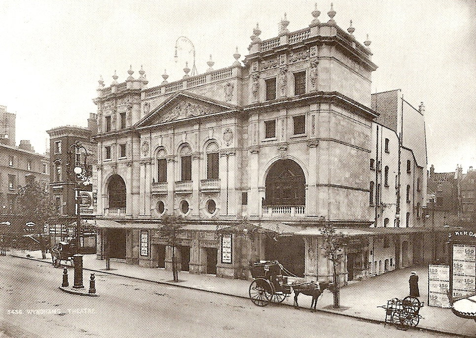 Wyndham's Theatre on London's Charing Cross Road in 1900, just before its opening on 16th of November 1900. The building just to the left, is the site of todays Leicester Square tube station.